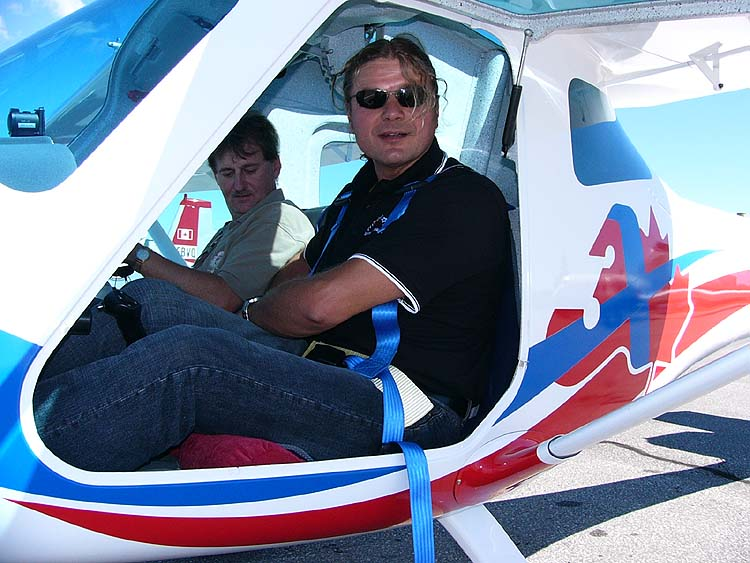 photo of a 3Xtrim 3X55 Trainer on 21 August 2006 at Peterborough, Ontario